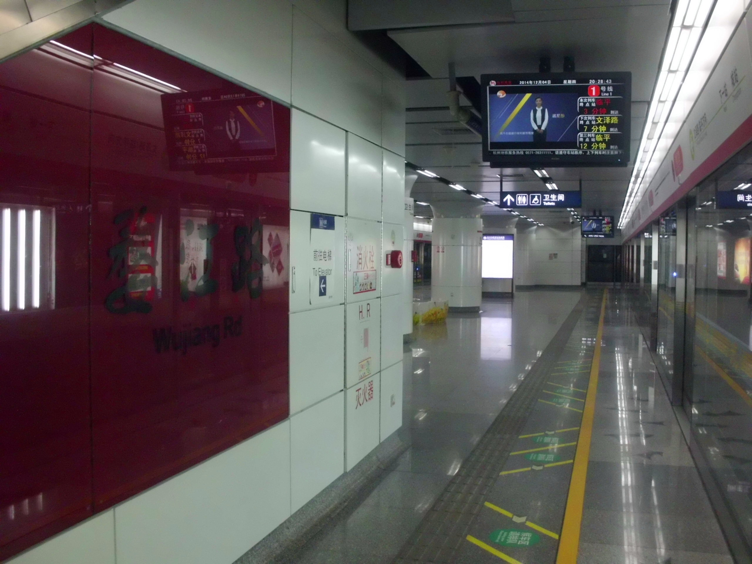 Wujiang Road Station